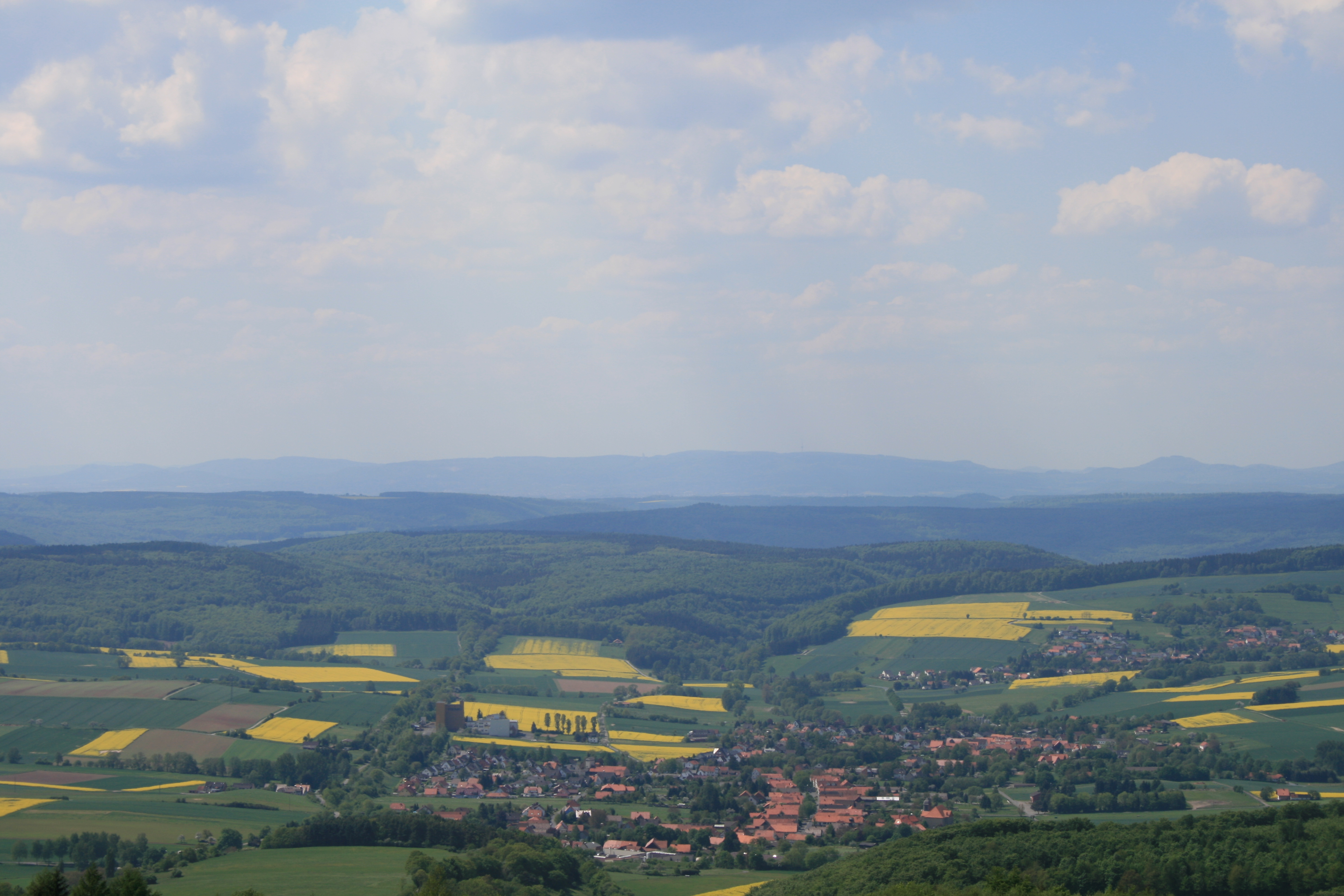 View from Gaussturm towards Scheden, Germany, 2008-05-12